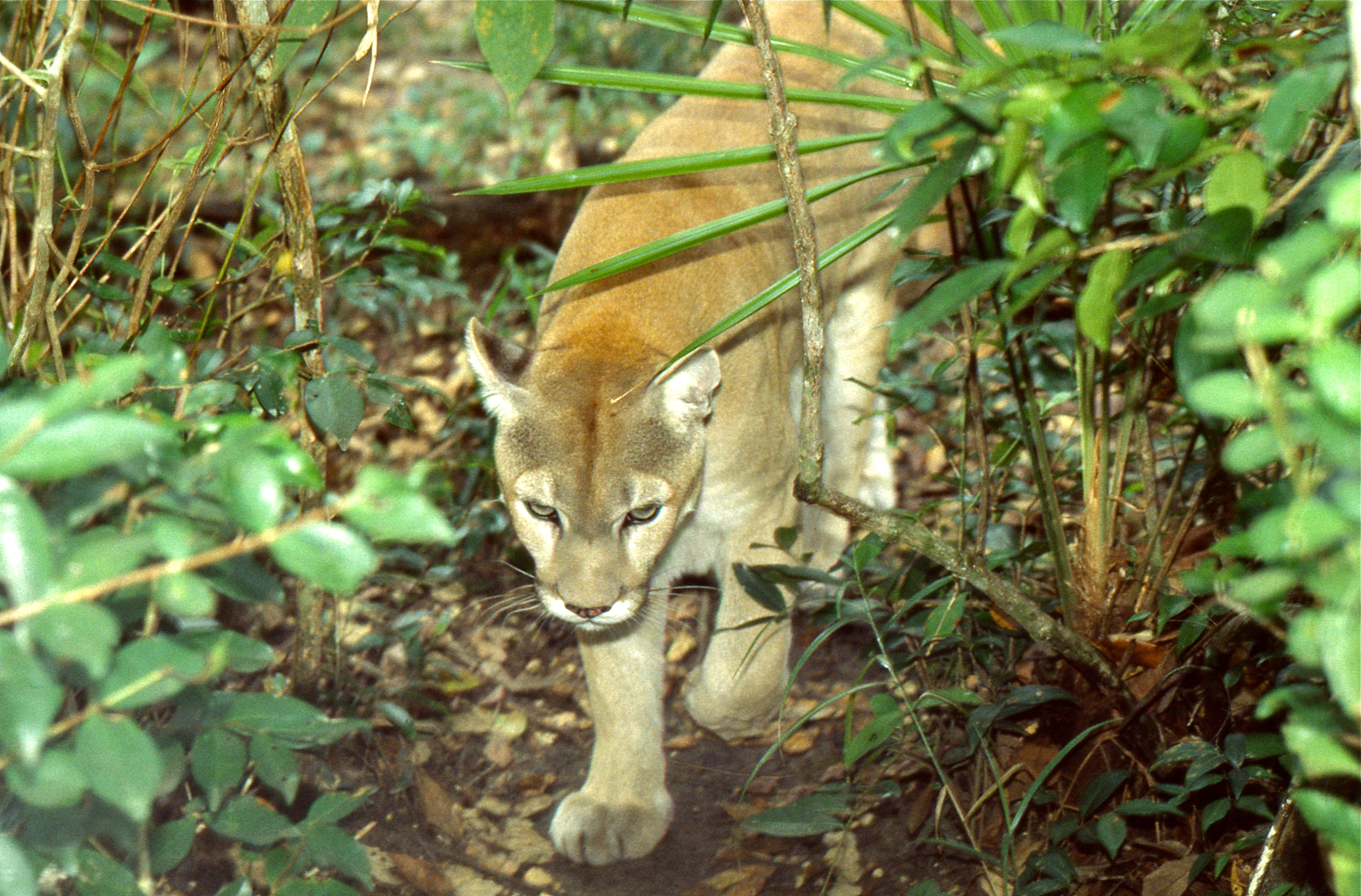 Belize Zoo, BELIZE Scanned slide from 1995